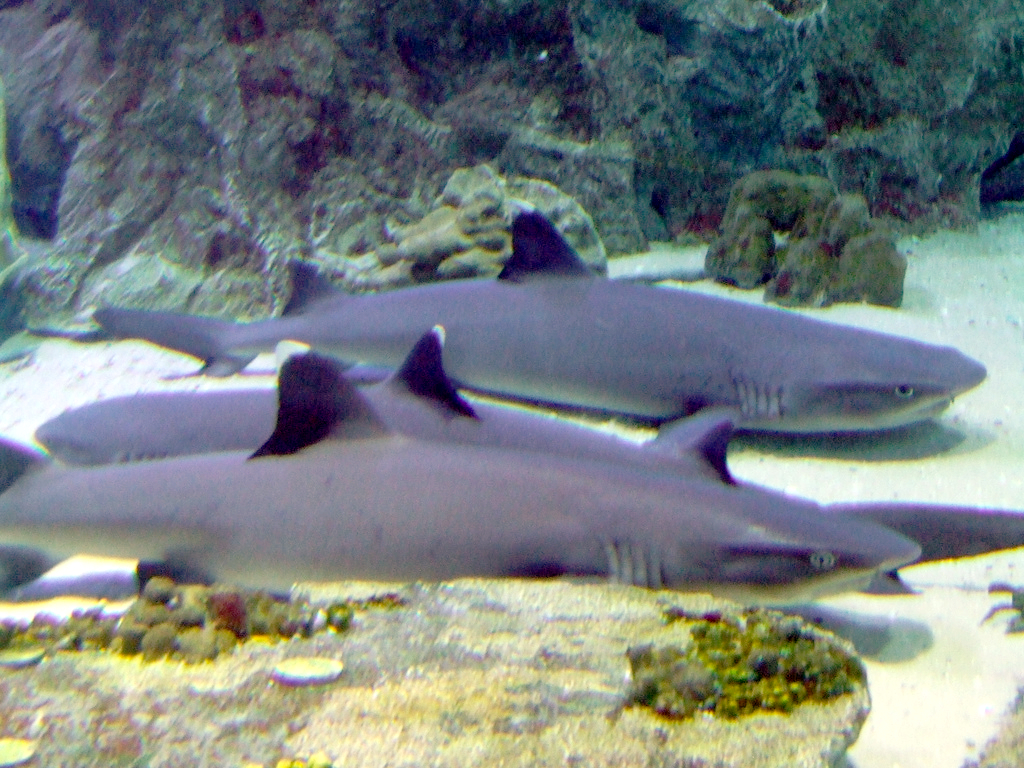 Whitetip reef sharks (Triaenodon obesus) in a Guam aquarium